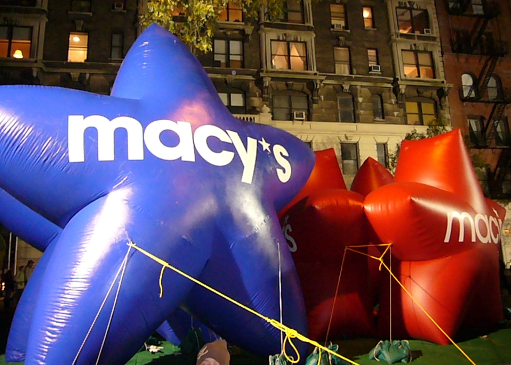 2006 Macy's Thanksgiving Day Parade